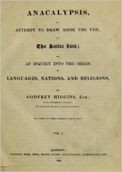 Image of the Anacalypsis, by Godfrey Higgins (pub. 1833).